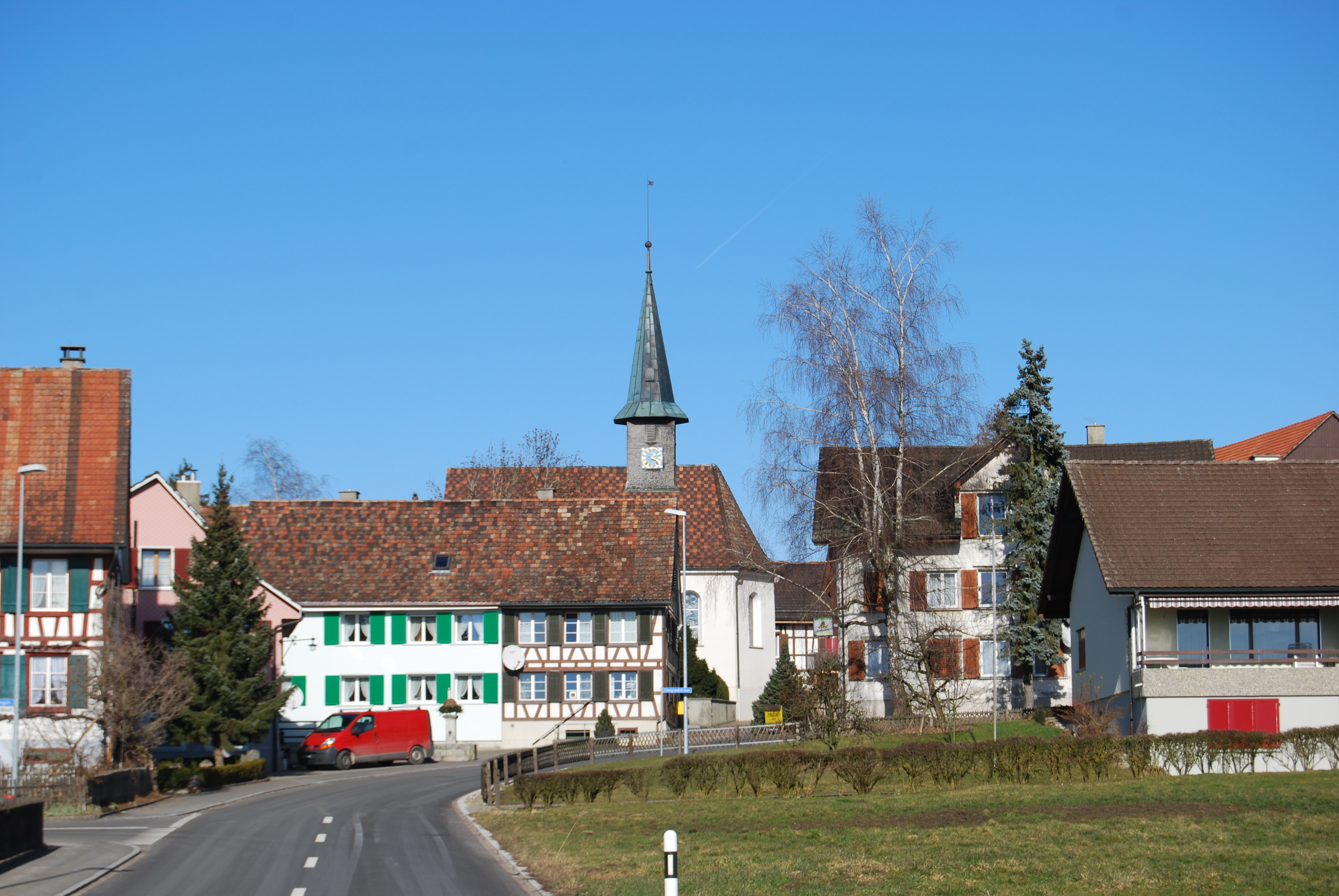 Raperswilen, canton of Thurgovia, Switzerland